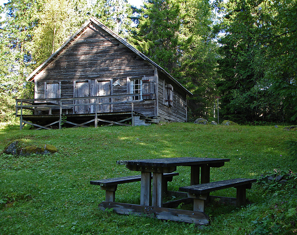 Bjästabodarna, an old shieling in Nätra fjällskog, Örnsköldsvik Municipality, Sweden.